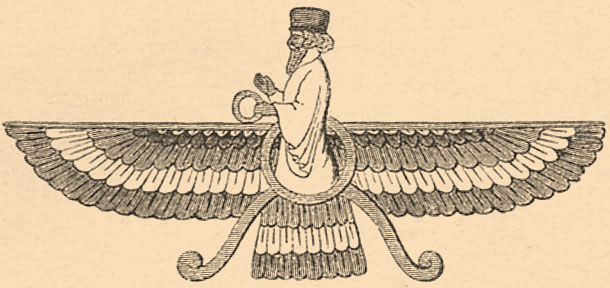 Illustration from Brockhaus and Efron Jewish Encyclopedia (1906—1913)